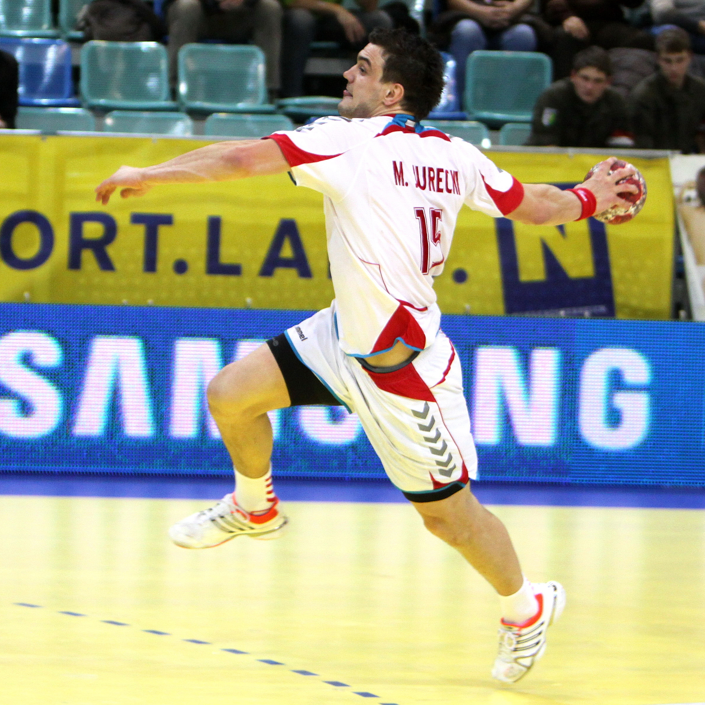 Michał Jurecki (TuS Nettelstedt-Lübbecke), Poland national handball team